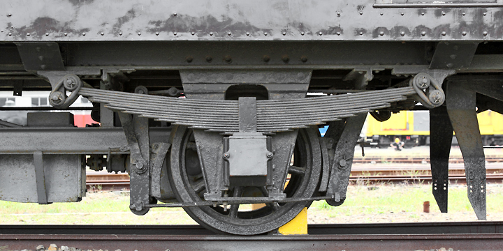 A suspension of the JNR Kihani 5000 Gasoline Railcar (in Naebo Workshop).